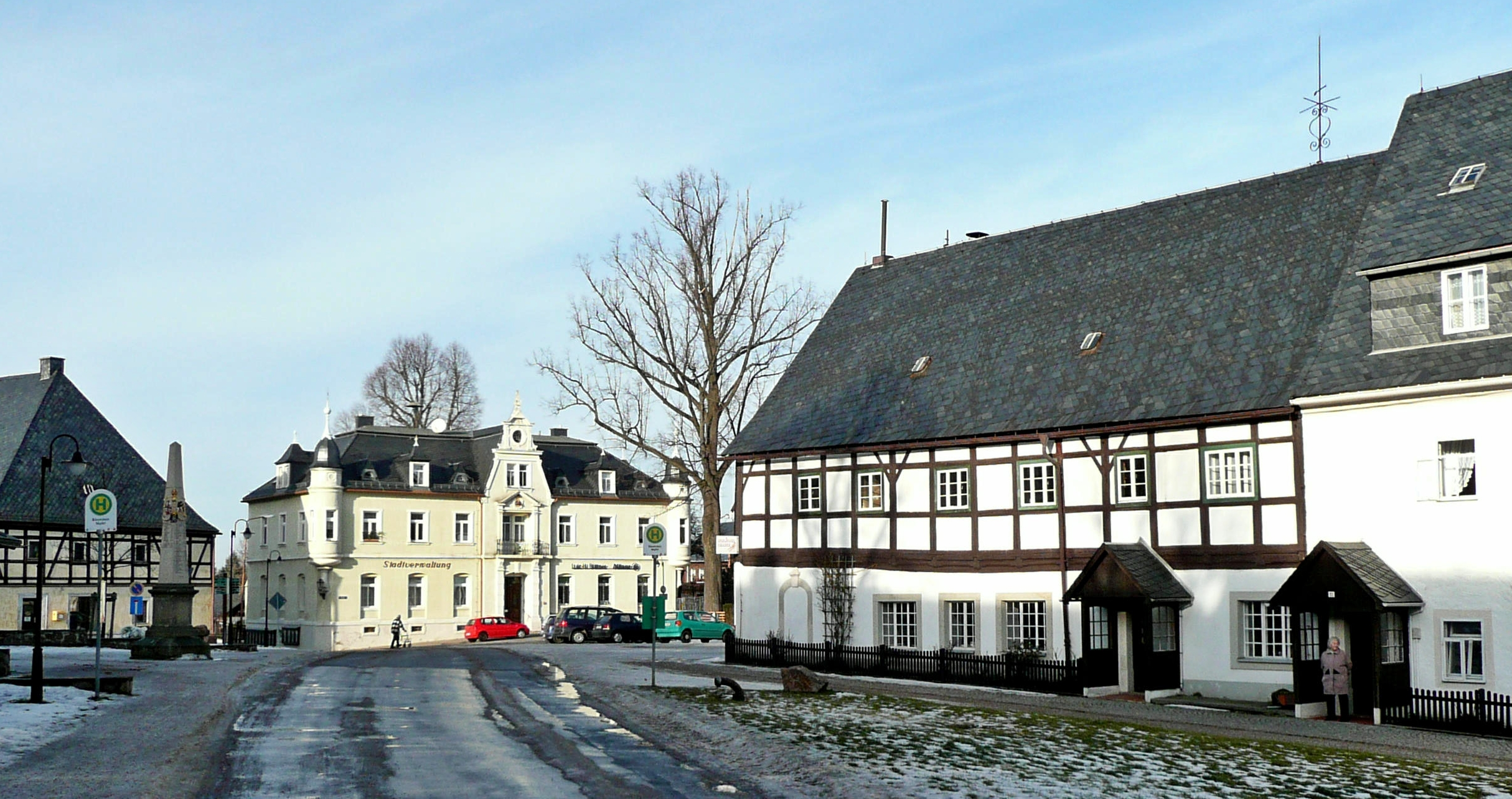 This image shows the marketplace in Bärenstein near Altenberg in Saxony.